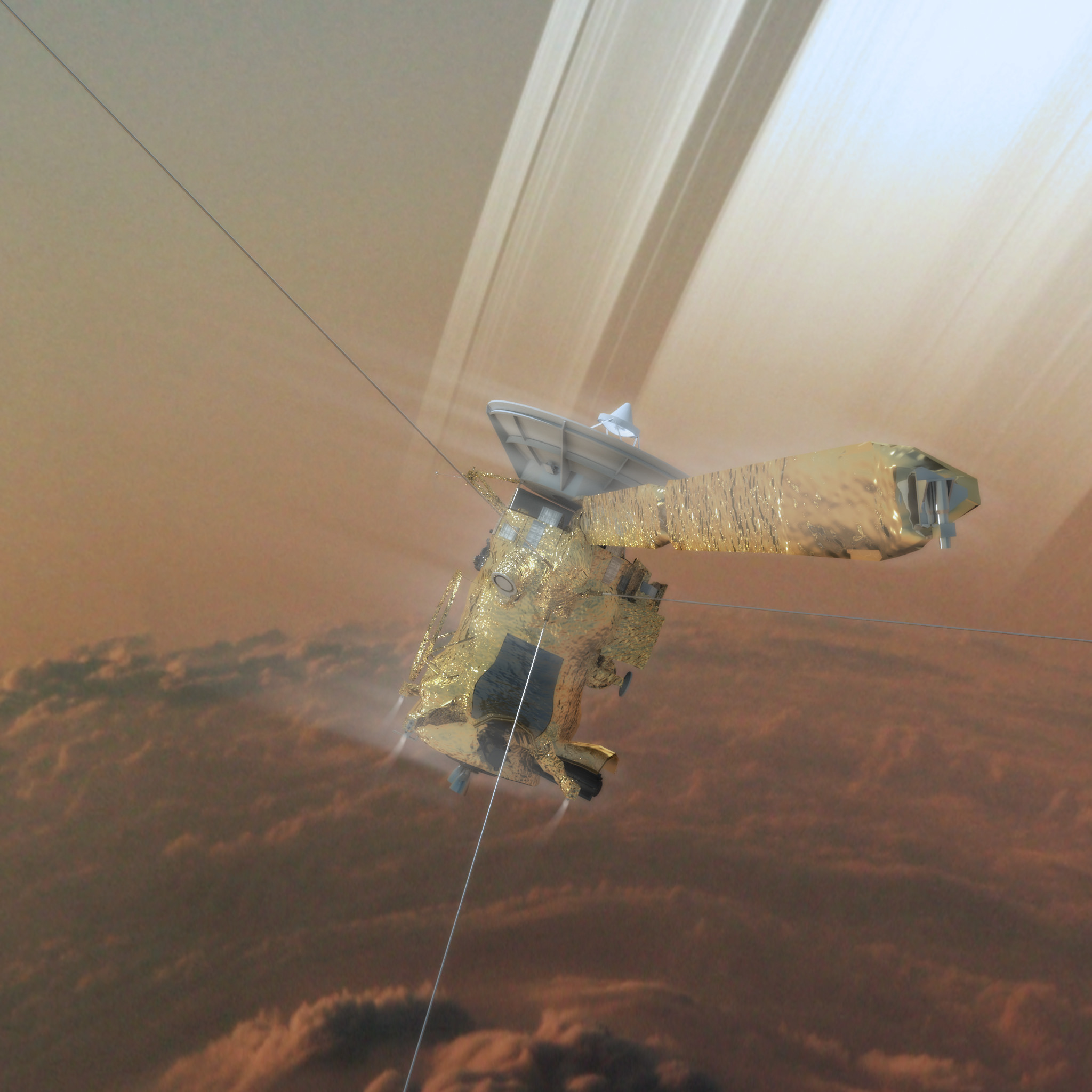 Rendered using Autodesk Maya and Adobe Photoshop.